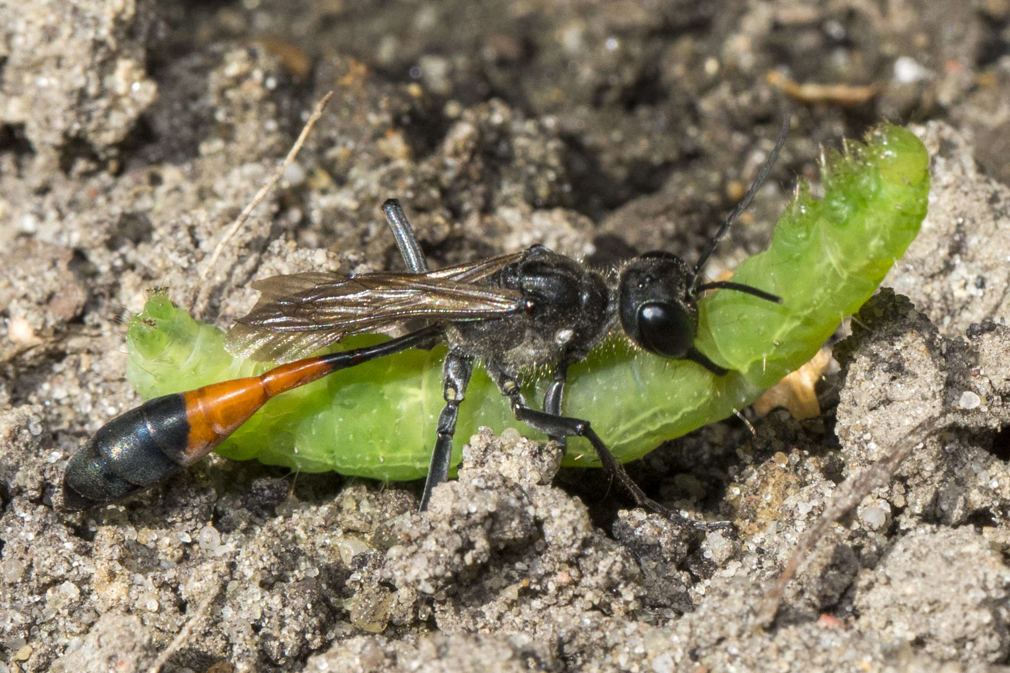 The red-banded sand wasp, Lodz(Poland)